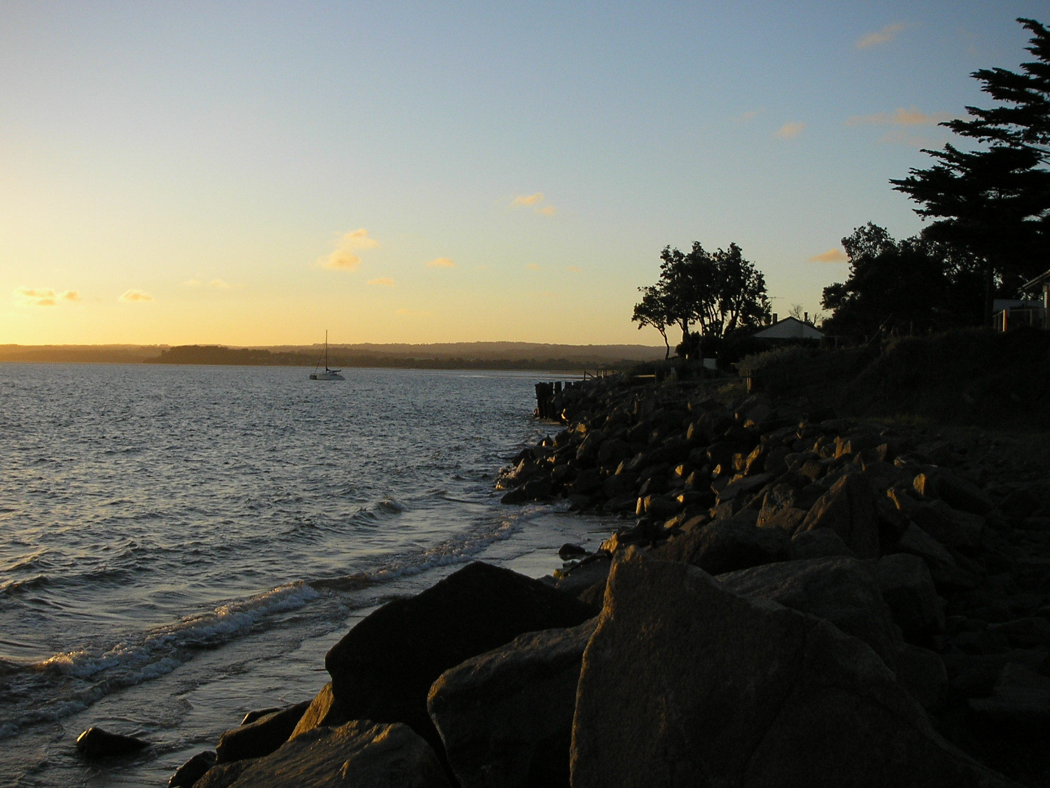 Photograph taken with an Olympus IR-300 at 3Megapixils by Nick Carson in Melbourne, Australia in January 2006.